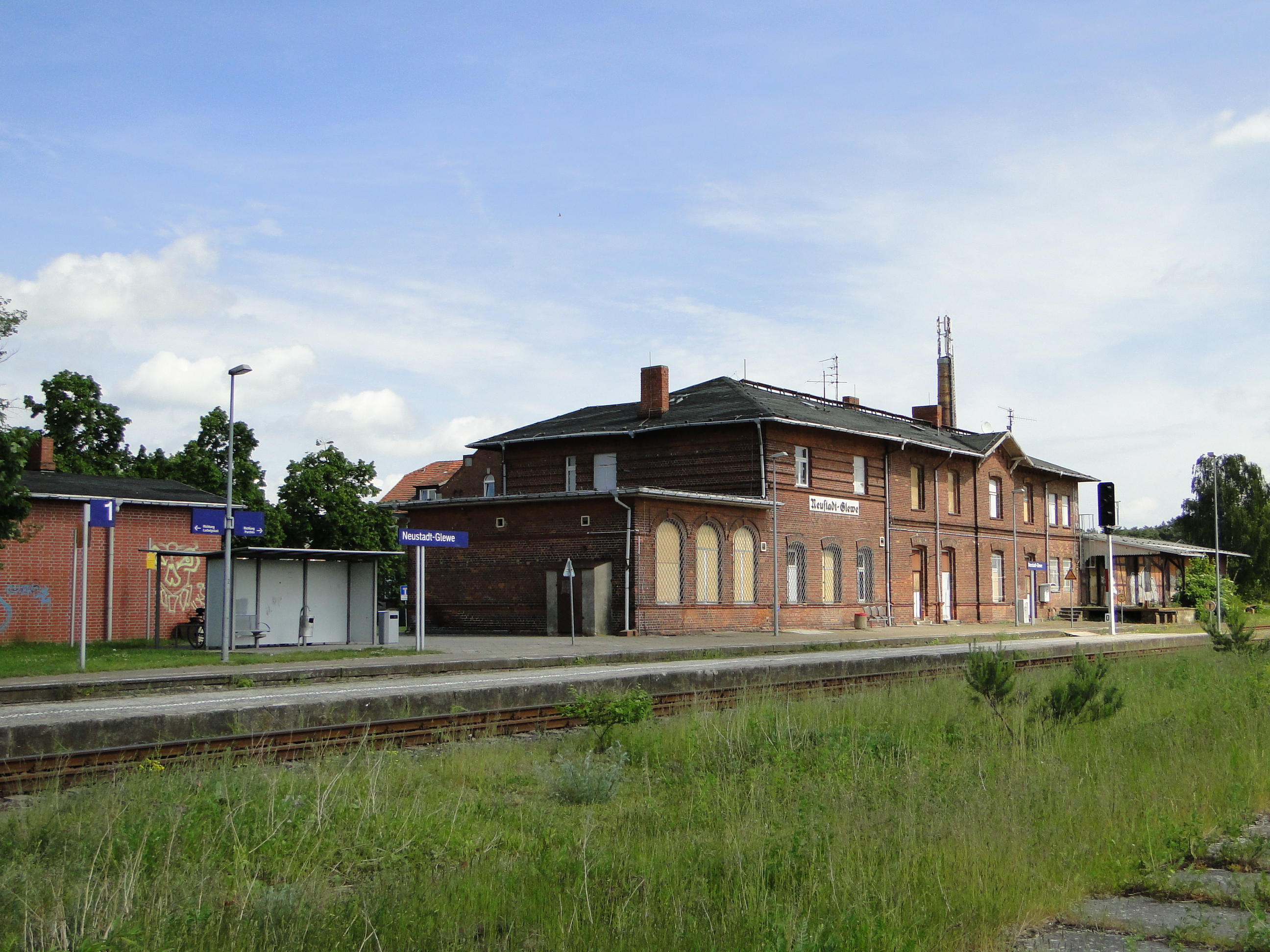 train station in Neustadt-Glewe, disctrict Ludwigslust, Mecklenburg-Vorpommern, Germany